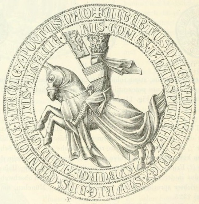 Albert II, Duke of Austria